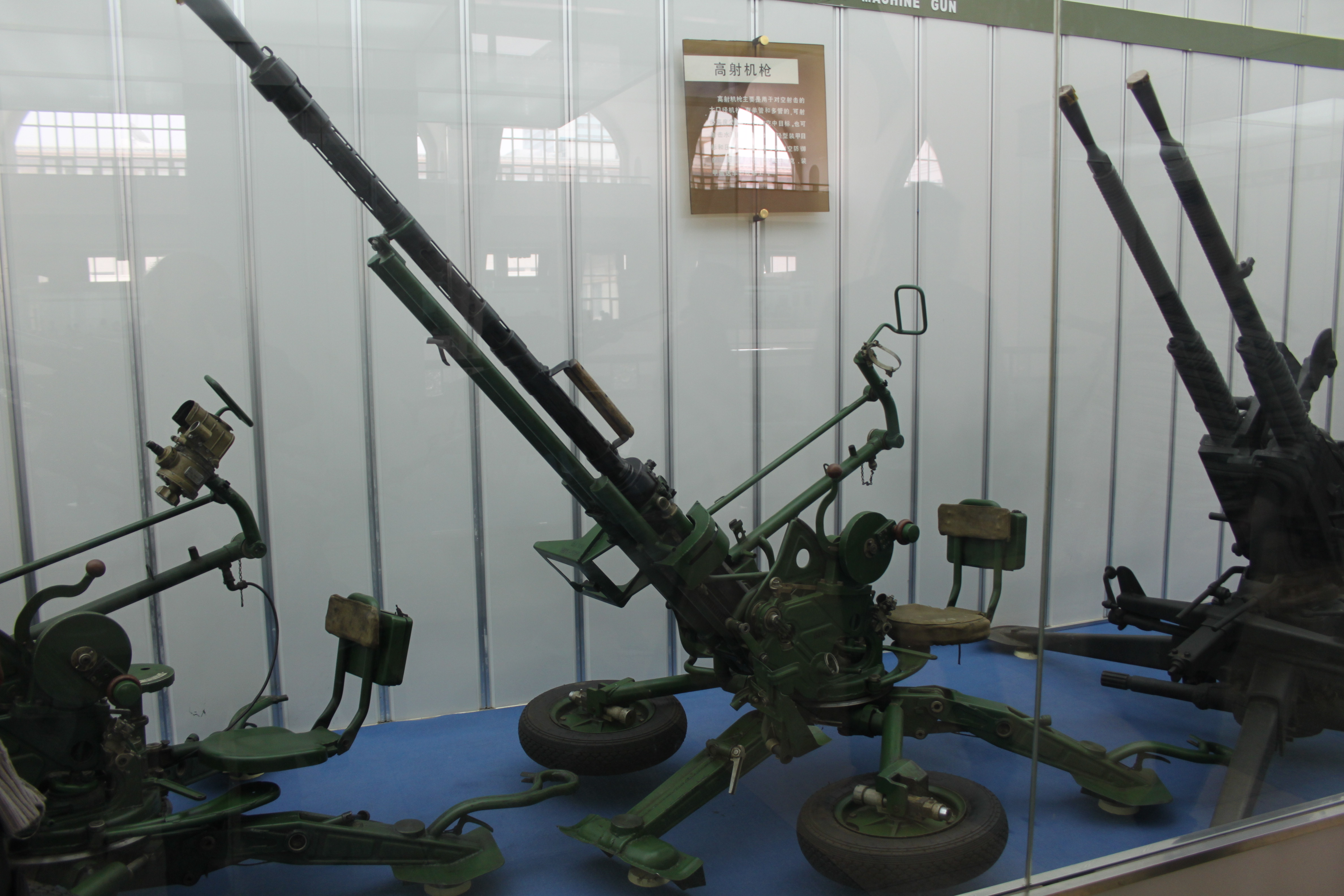 Military Museum: Modern Weapons, Small Arms Gallery. Complete indexed photo collection at .